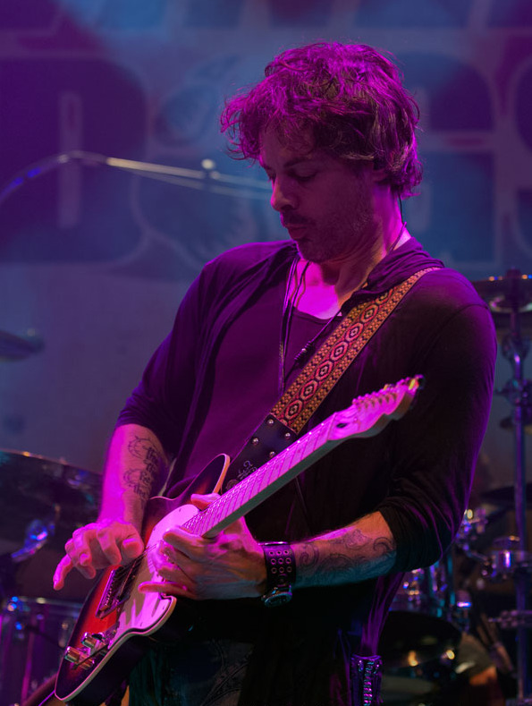 Richie Kotzen, playing with The Winery Dogs at De Boerderij in Zoetermeer, The Netherlands (2013/09/06)